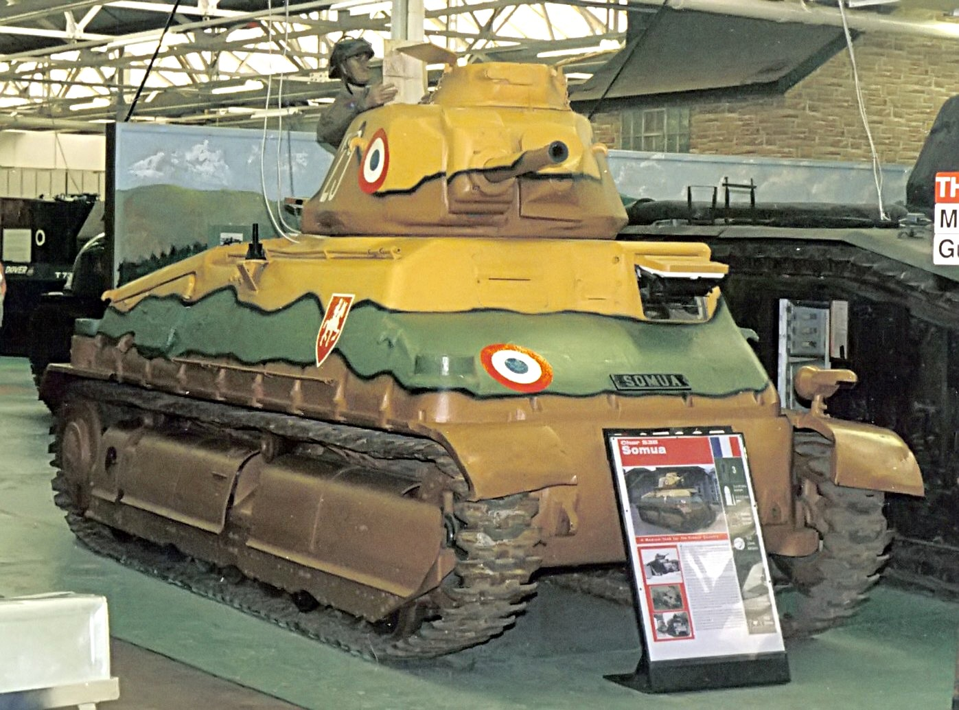 SOMUA S35 tank at Bovington Tank Museum